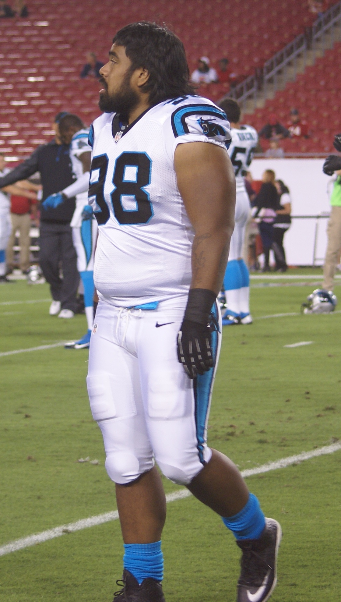 Star Lotulelei in 2013.